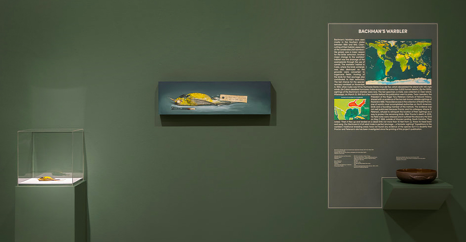 Installation image of Lost Beauty by Alberto Rey at the Anderson Gallery in Buffalo, NY